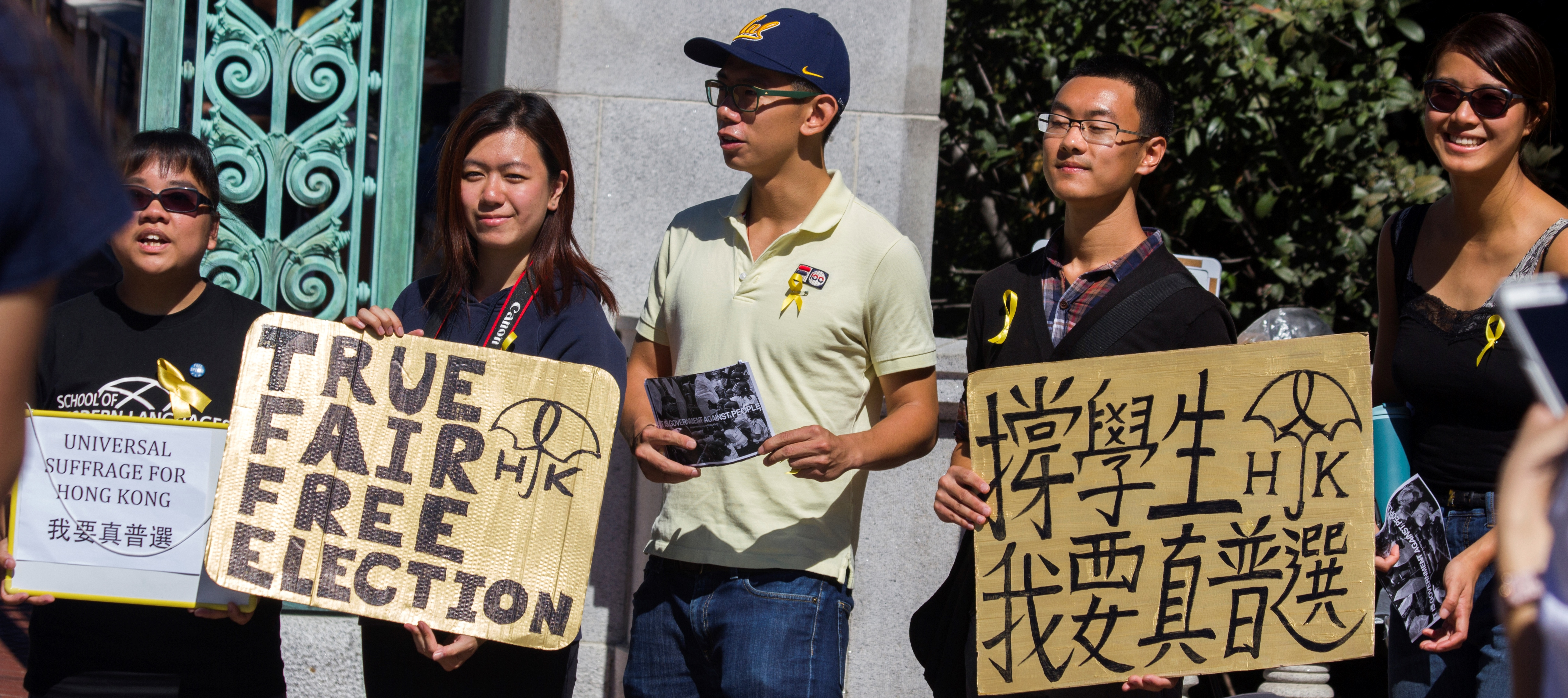 Free Speech Movement